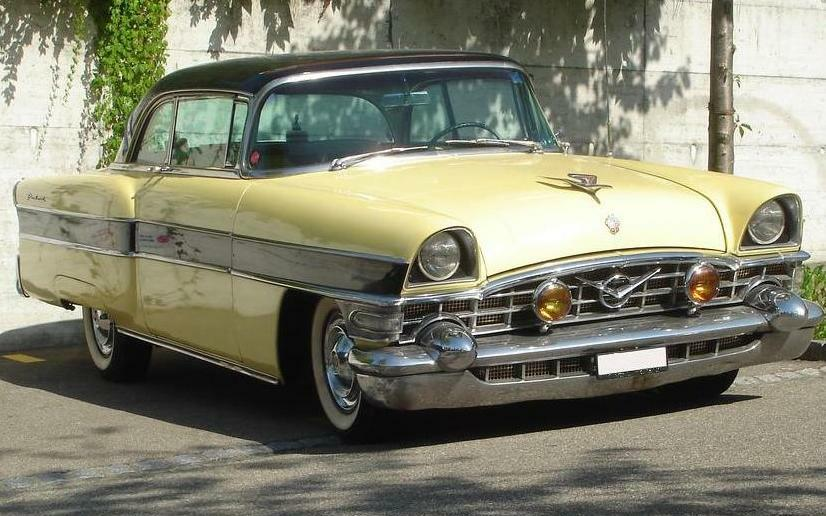 Packard Executive Hardtop Modell 5677 (1956)